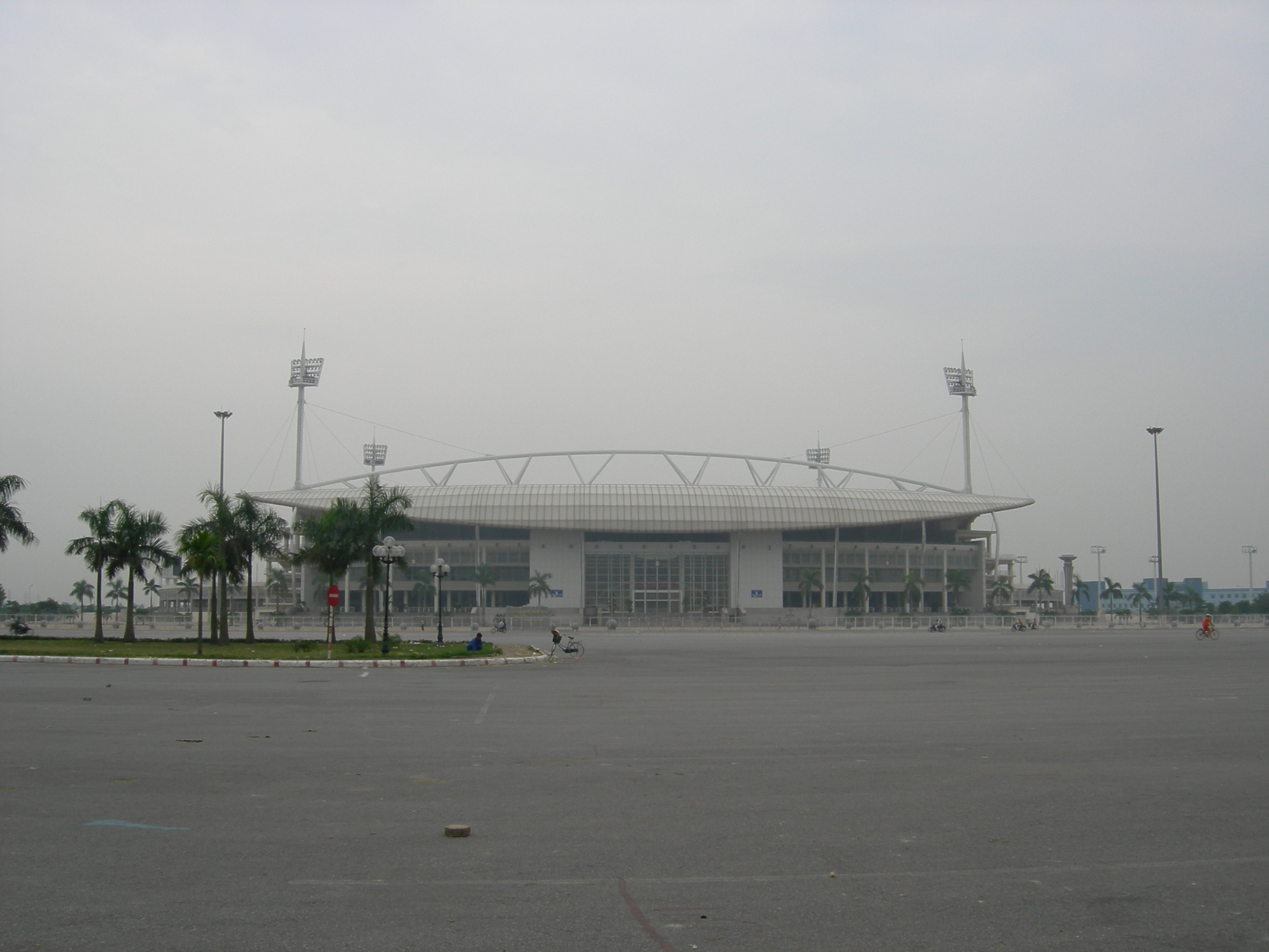 My Dinh National Stadium (Hanoi, Vietnam).